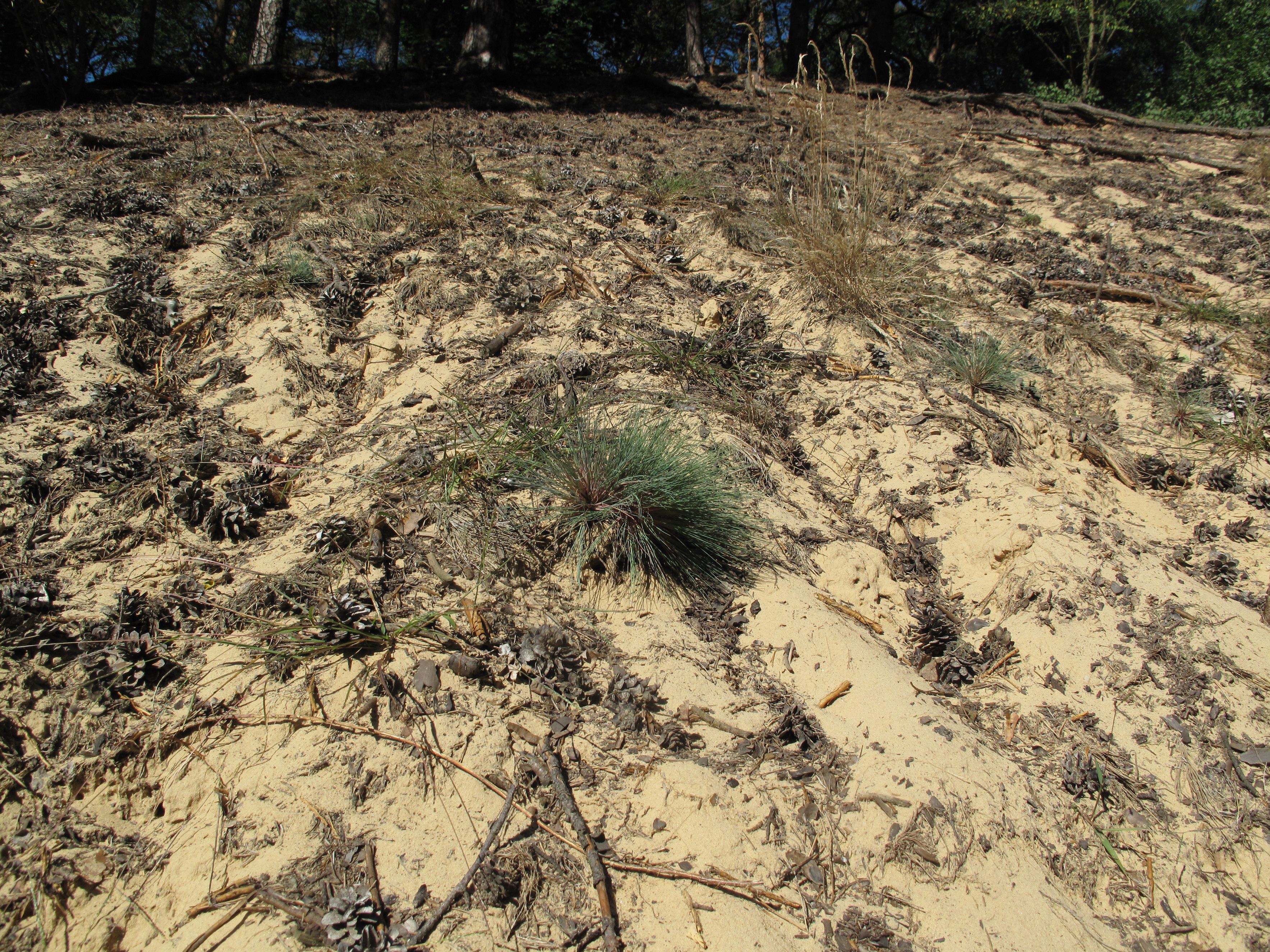 The „Binnendüne Waltersberge“ is one of the largest inland dunes in Brandenburg, Germany. The dune is situated in the town Storkow, District Oder-Spree, just over the eastern border of the Dahme-Heideseen Nature Park. The centre of the area, which covers about 14 hectare, is designated as a Naturschutzgebiet (protected area) and Natura 2000-area. Nearly just beside the northern bank of the Großer Storkower See (lake), rises above the dune with its largest peak, the Storkower Weinberg (69 metres), up to 32 metres over the sea.